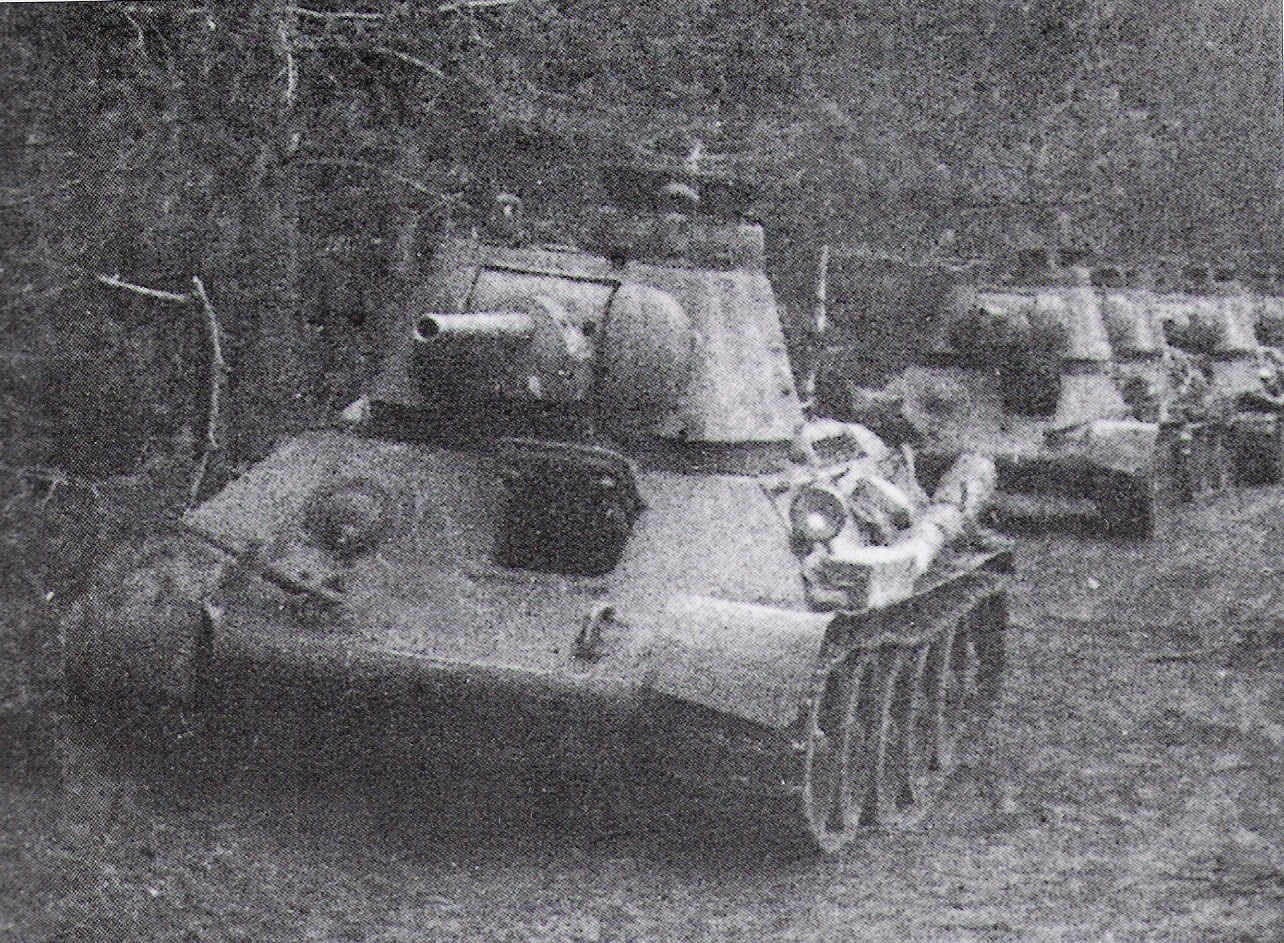 Soviet tanks during the Kiev offensive (november 1943)